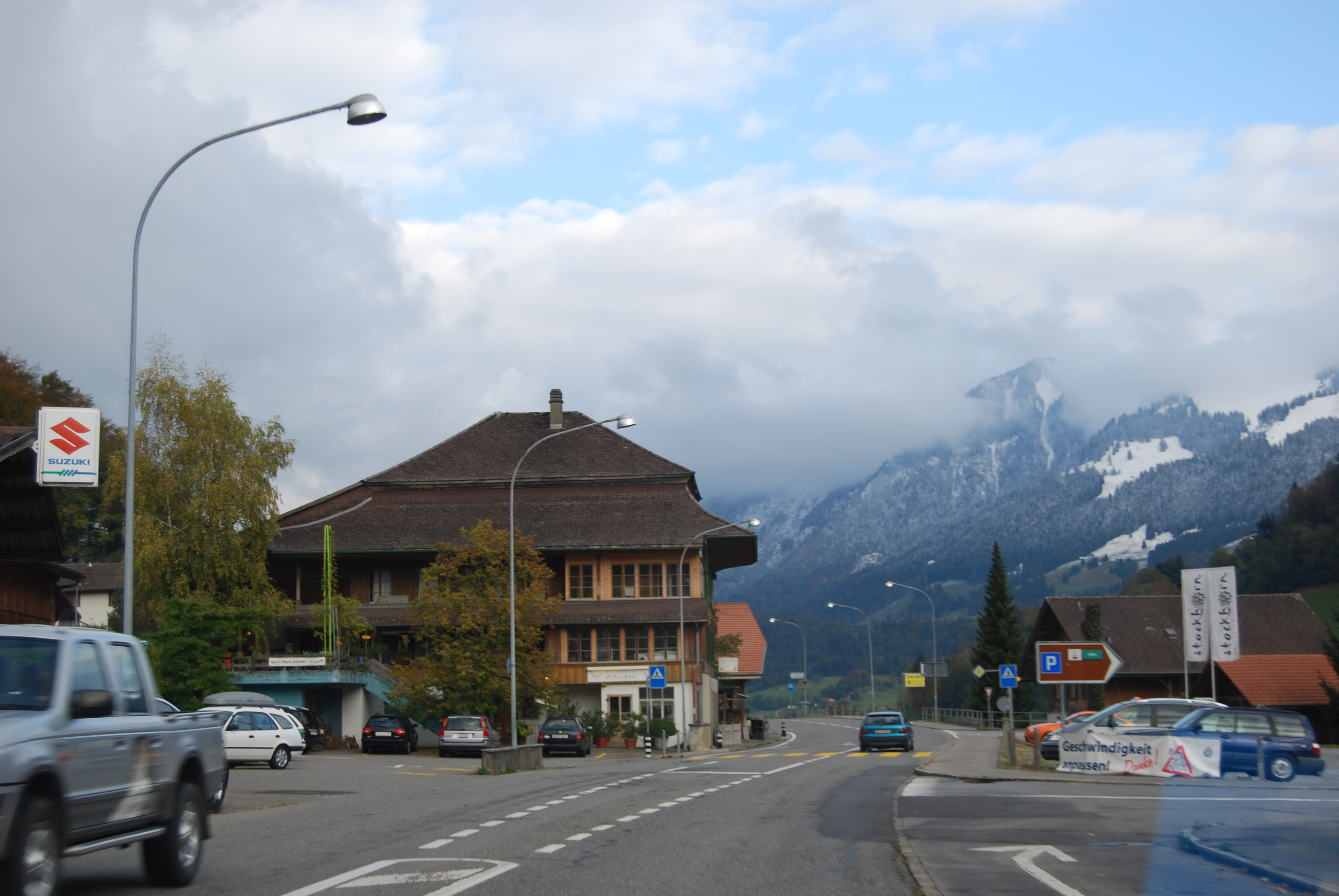 Church of Därstetten, canton of Bern, SwitzerlandEsperanto: Preĝejo de Därstetten, Kantono Berno, Svislando